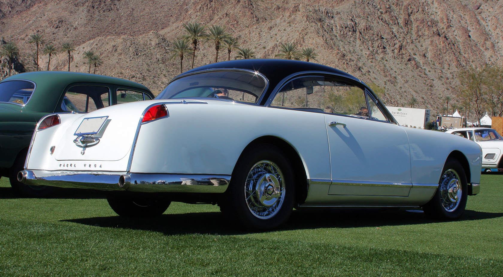 1955 Facel Vega FV1 at the 2011 Desert Classic, La Quinta, CA